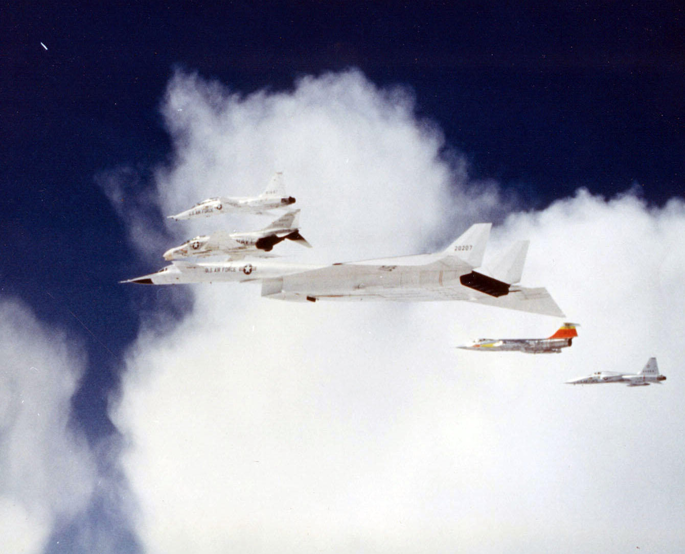 The North American XB-70A Valkyrie (s/n 62-0207) just before the collision, 8 June 1966. Other aircraft are: Northrop T-38A-15-NO (s/n 59-1601), McDonnell F-4B-15-MC (BuNo 150993), Lockheed F-104A-20-LO (aka F-104N) (s/n 56-813), and Northrop YF-5A-NO (s/n 59-4989).